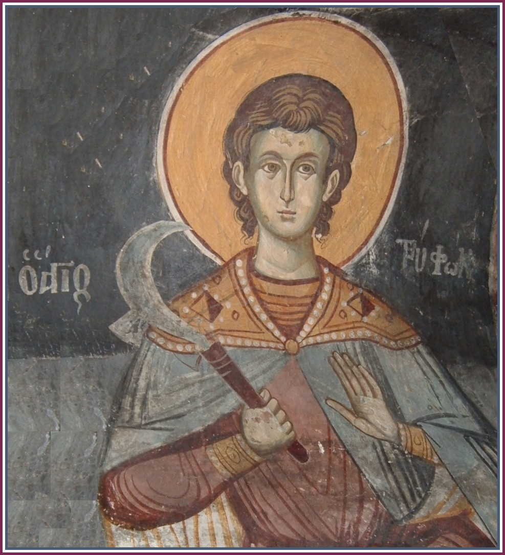 St Trifon St German Prespa Church 1743